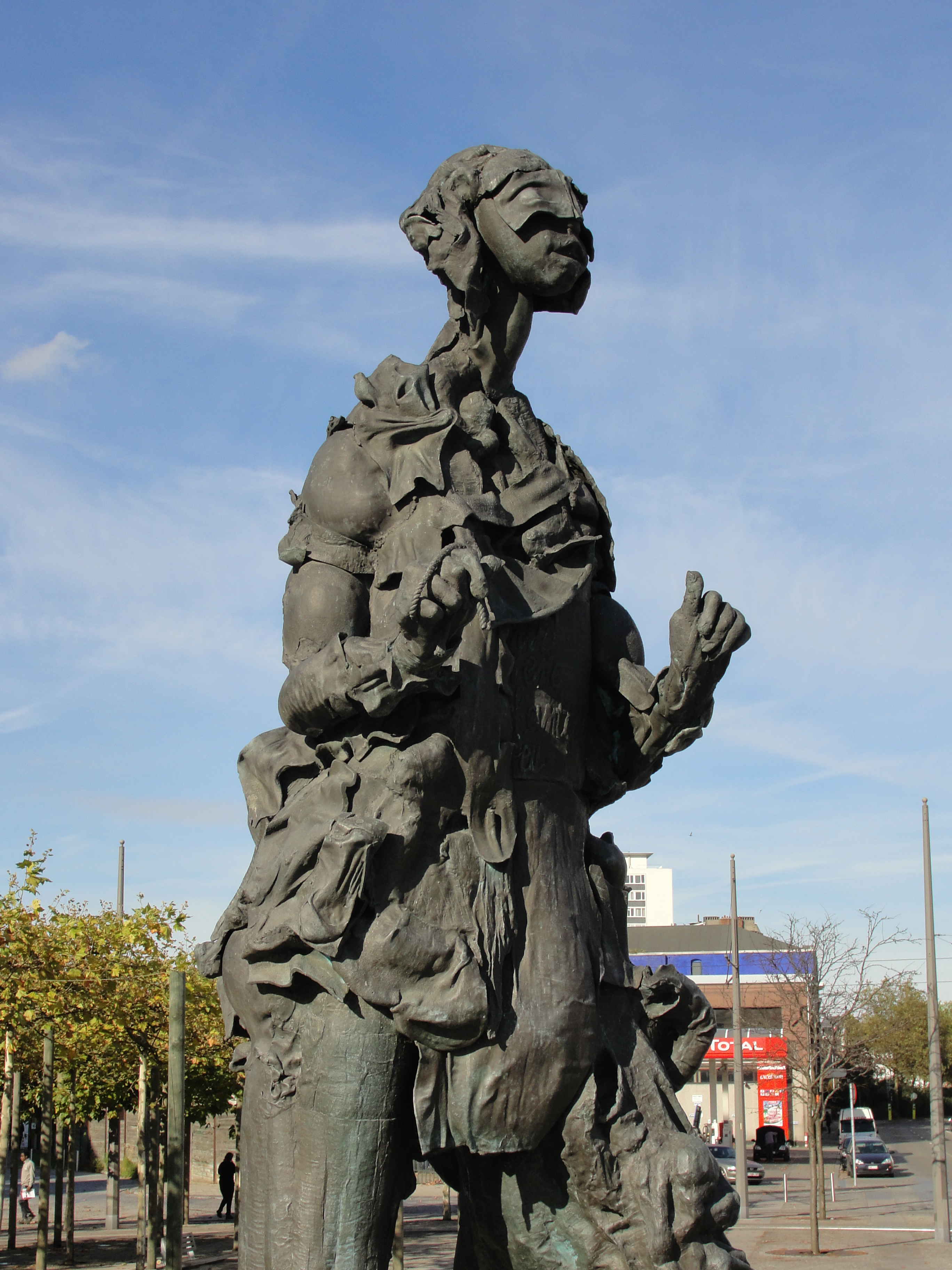 Statue of Jan de Lichte, 18th century criminal, by sculptor Roel D'Haese